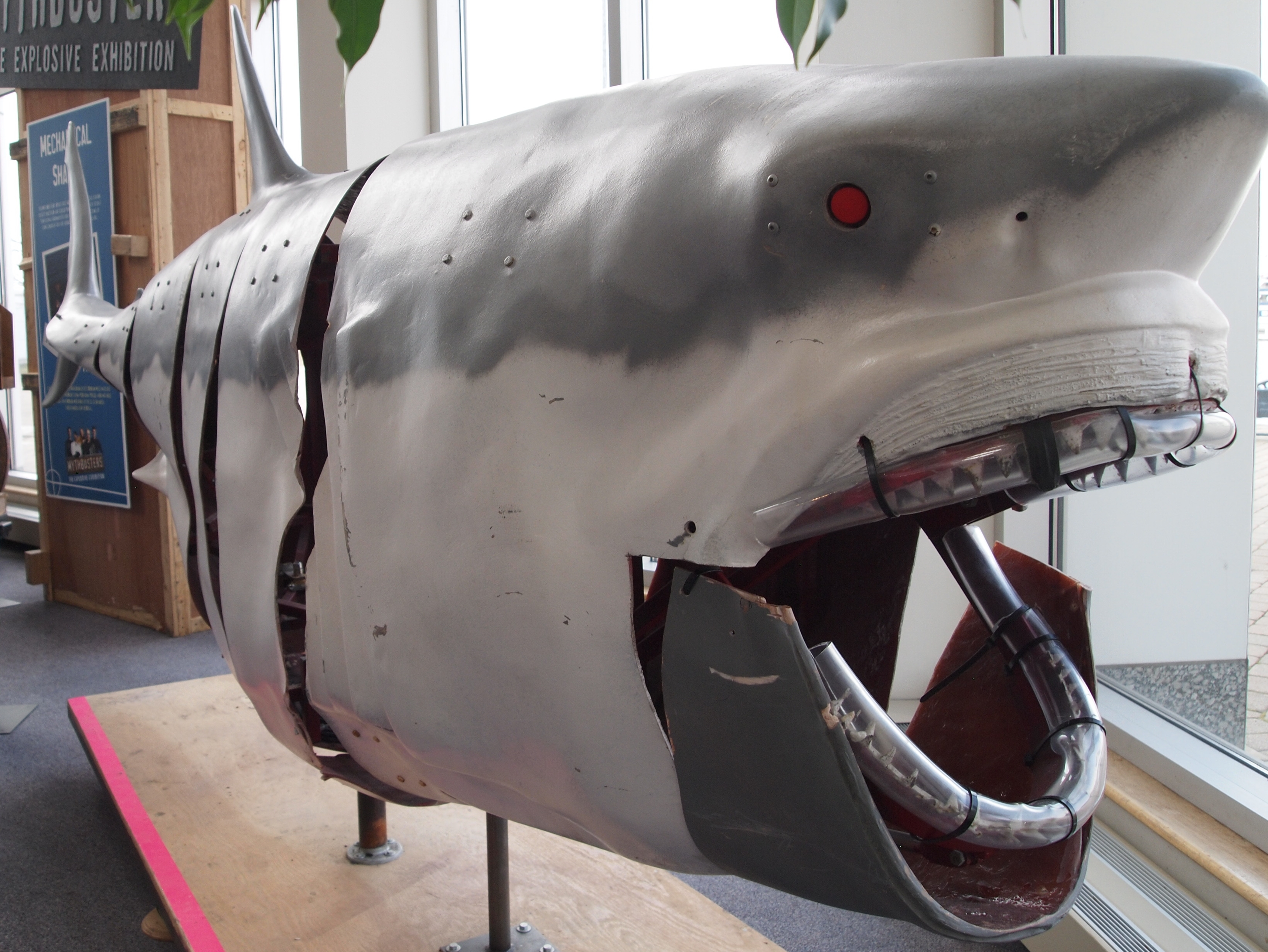 MythBusters Bruce Robot Shark